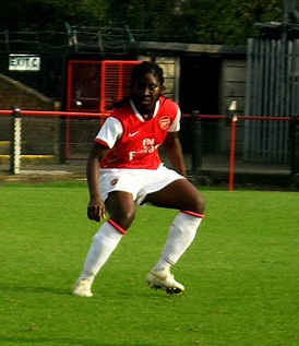 Bclfc vs arsenal in the FA league cup, season 2006/07. For more details go to